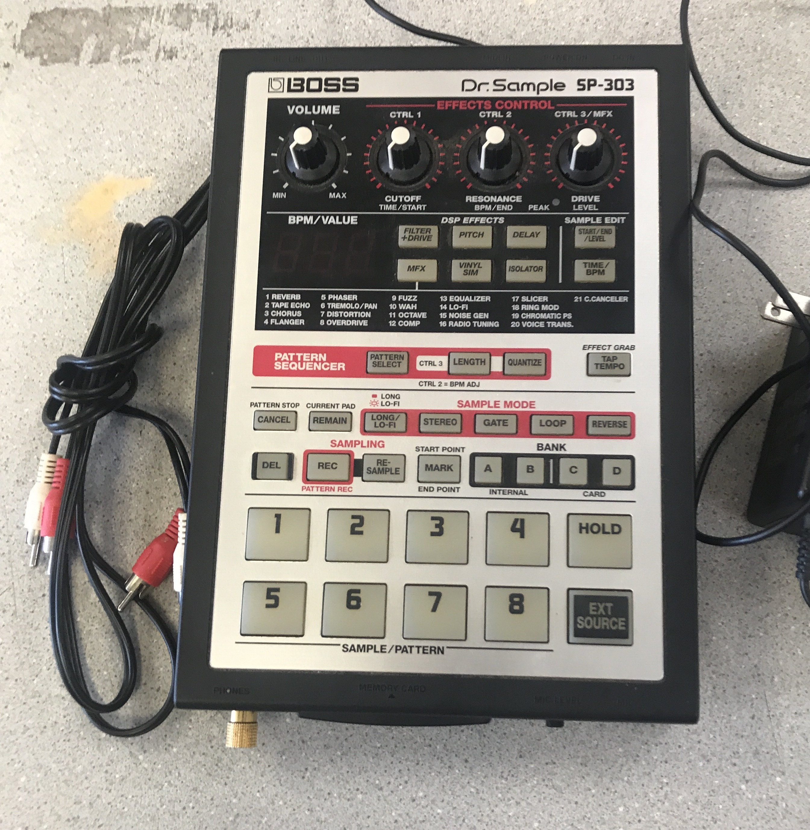 A photo which displays the design of the Boss SP-303 digital sampler.